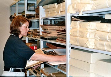 Used with the permission of the archivist pictured, Cyndi Shein. An Archivist surveying an unprocessed collection of materials. Surveying is commonly done to determine priorities for preservation and/or conservation of materials before an archivist begins arrangement and description.